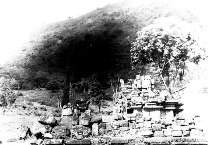 The Candi Songgoriti